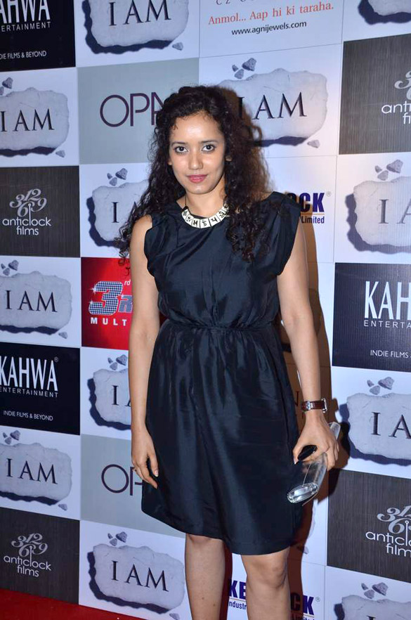 Shreya narayan i am national award bash